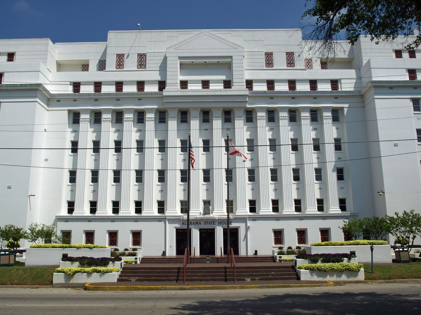 The Alabama State House in Montgomery, Alabama